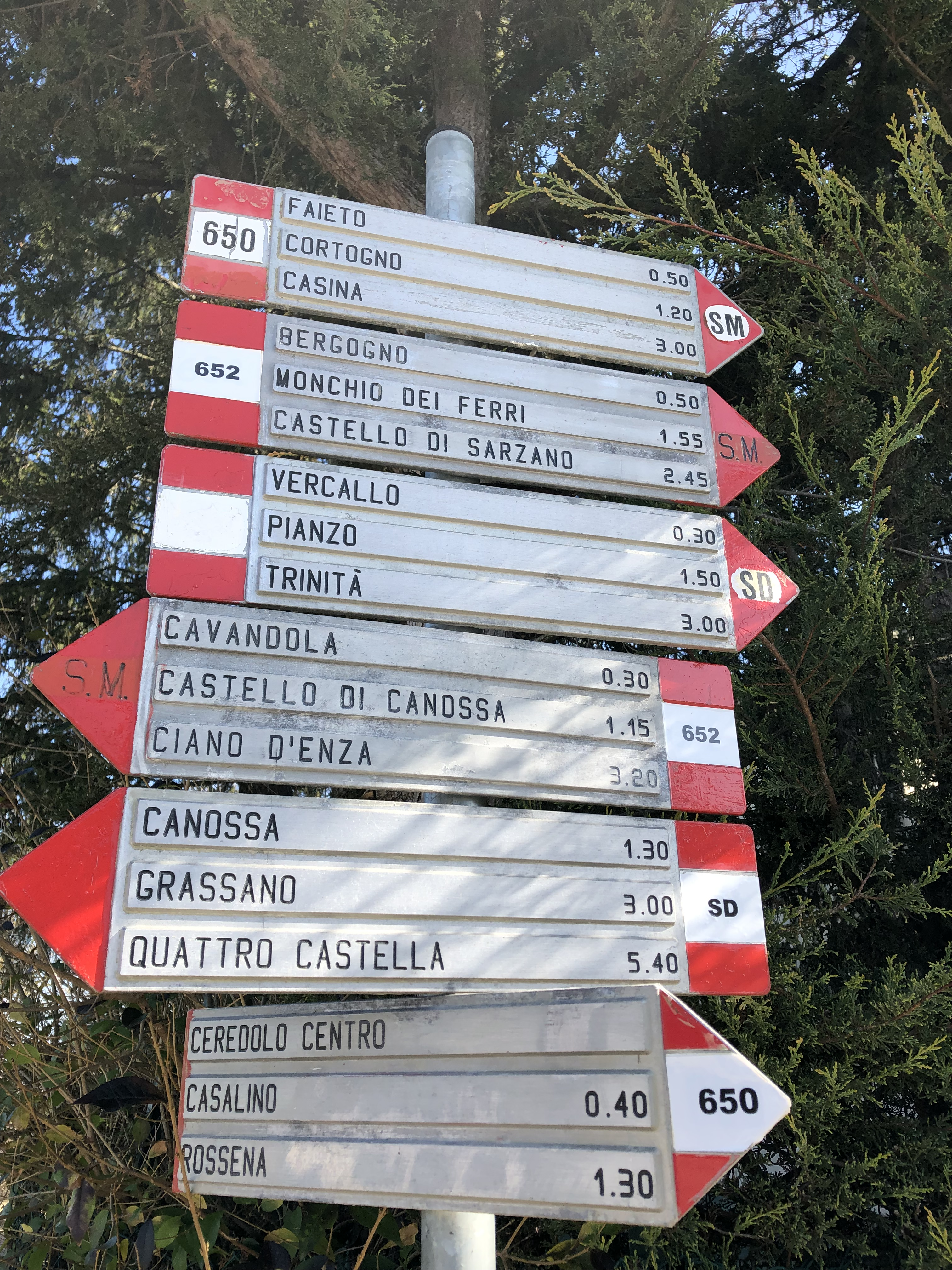 Ceredolo dei Coppi, borgo